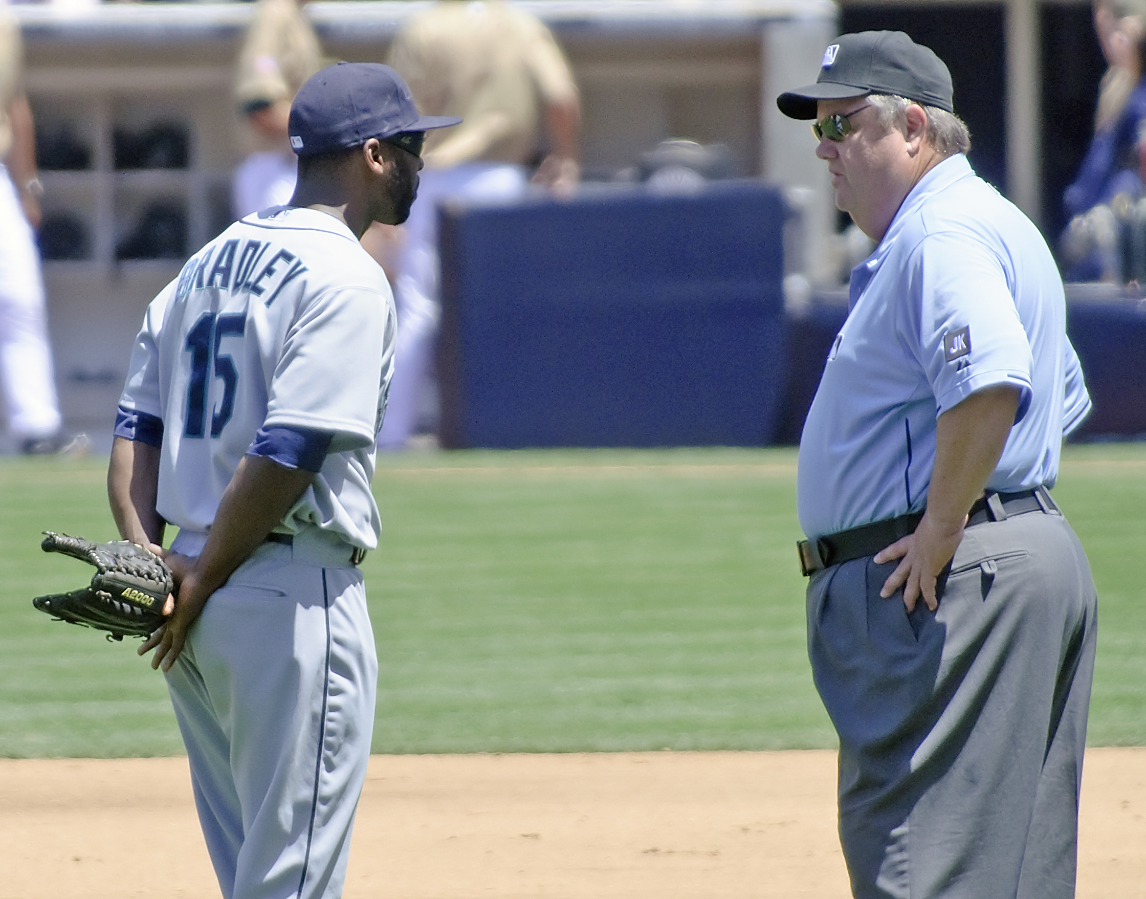 Milton Bradley (left)